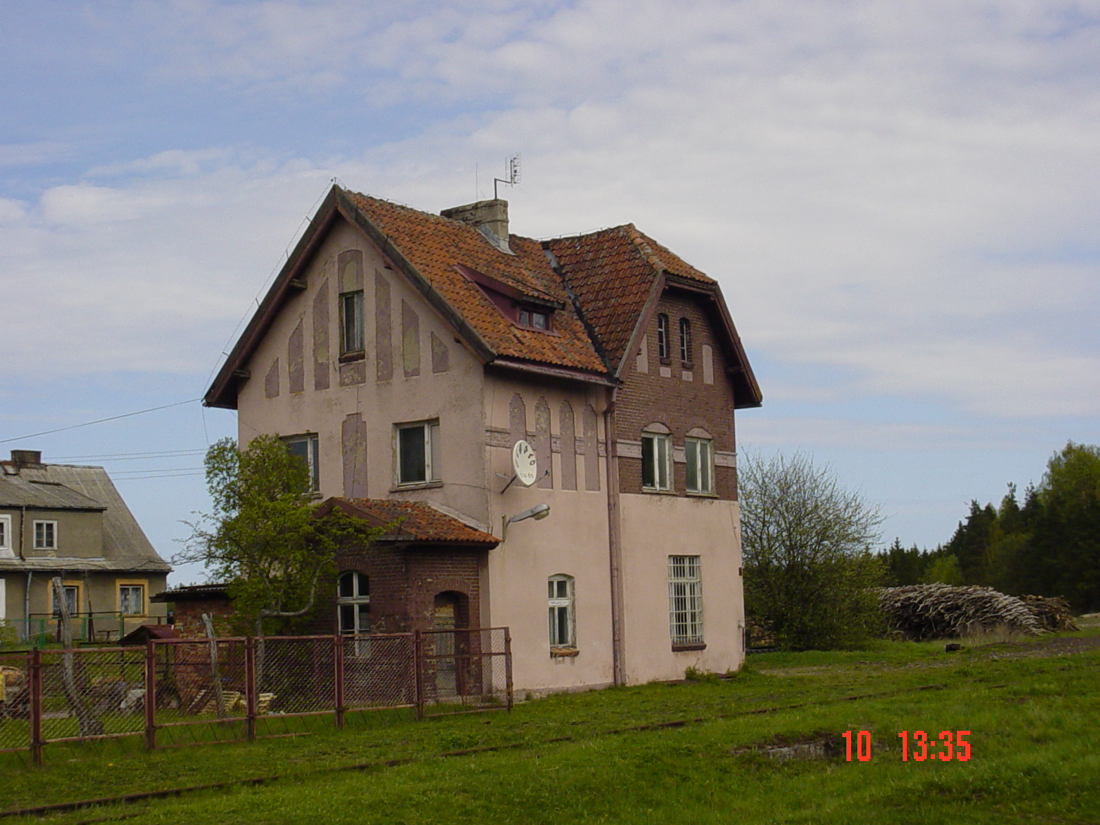 Former train station in Botkuny, Poland, on route 41.